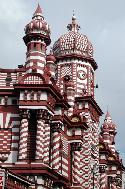 The Jami-ul-Alfar Mosque in Pettah, built in 1909, is one of the oldest mosques in Colombo.